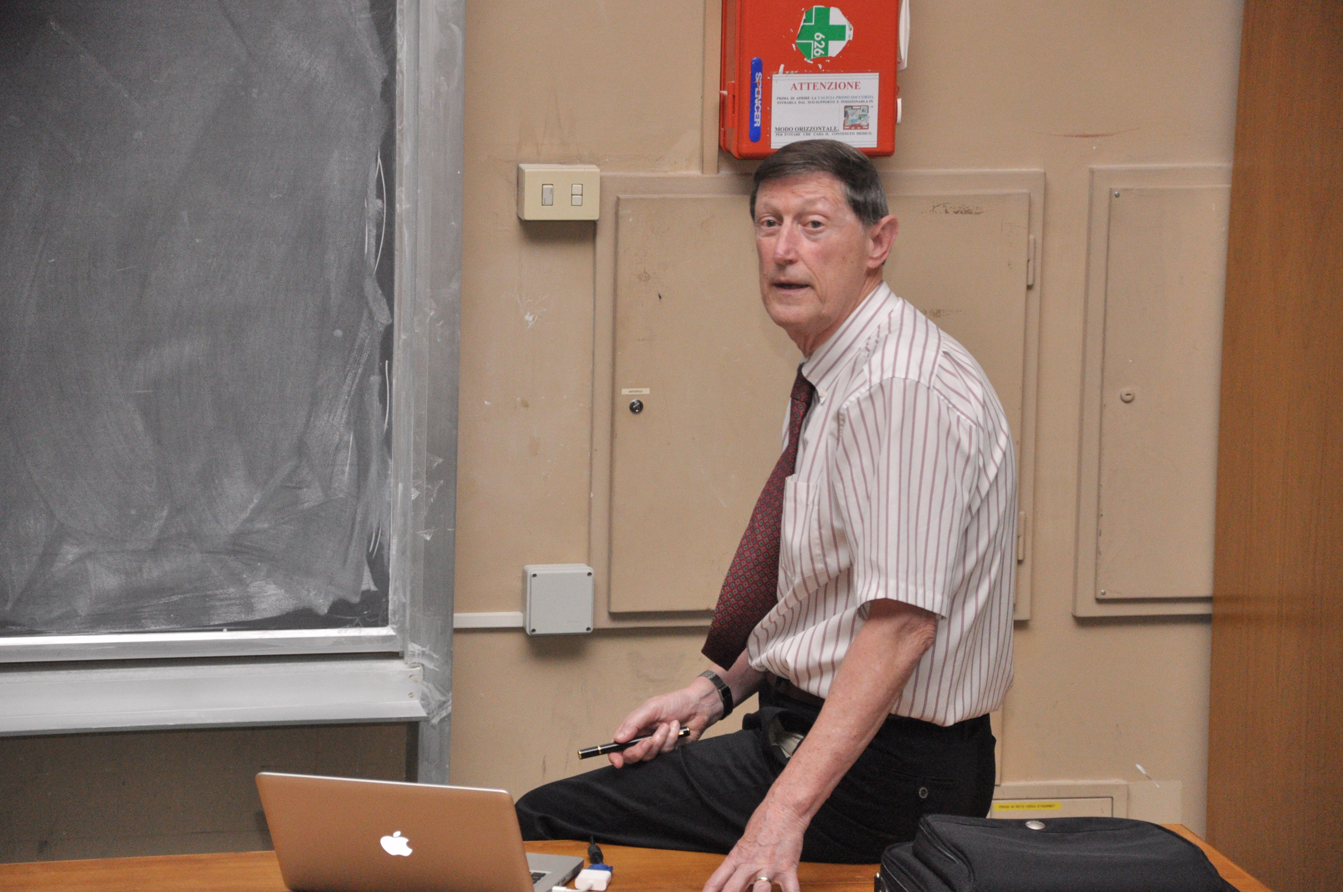 DSC_7145 Visit of Robert Williams to ICRANet, Pescara, and subsequent seminar in La Sapienza, Rome, 26/10/2012.